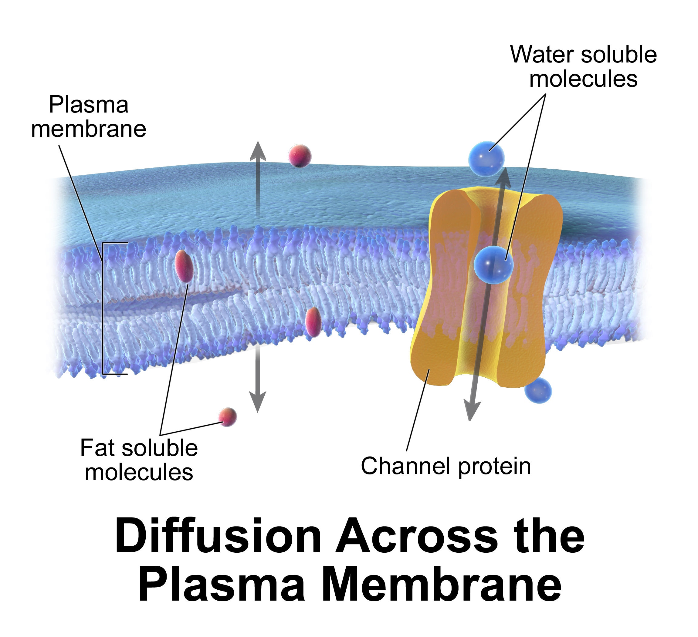 Diffusion Across the Plasma Membrane. See a full animation of this medical topic.